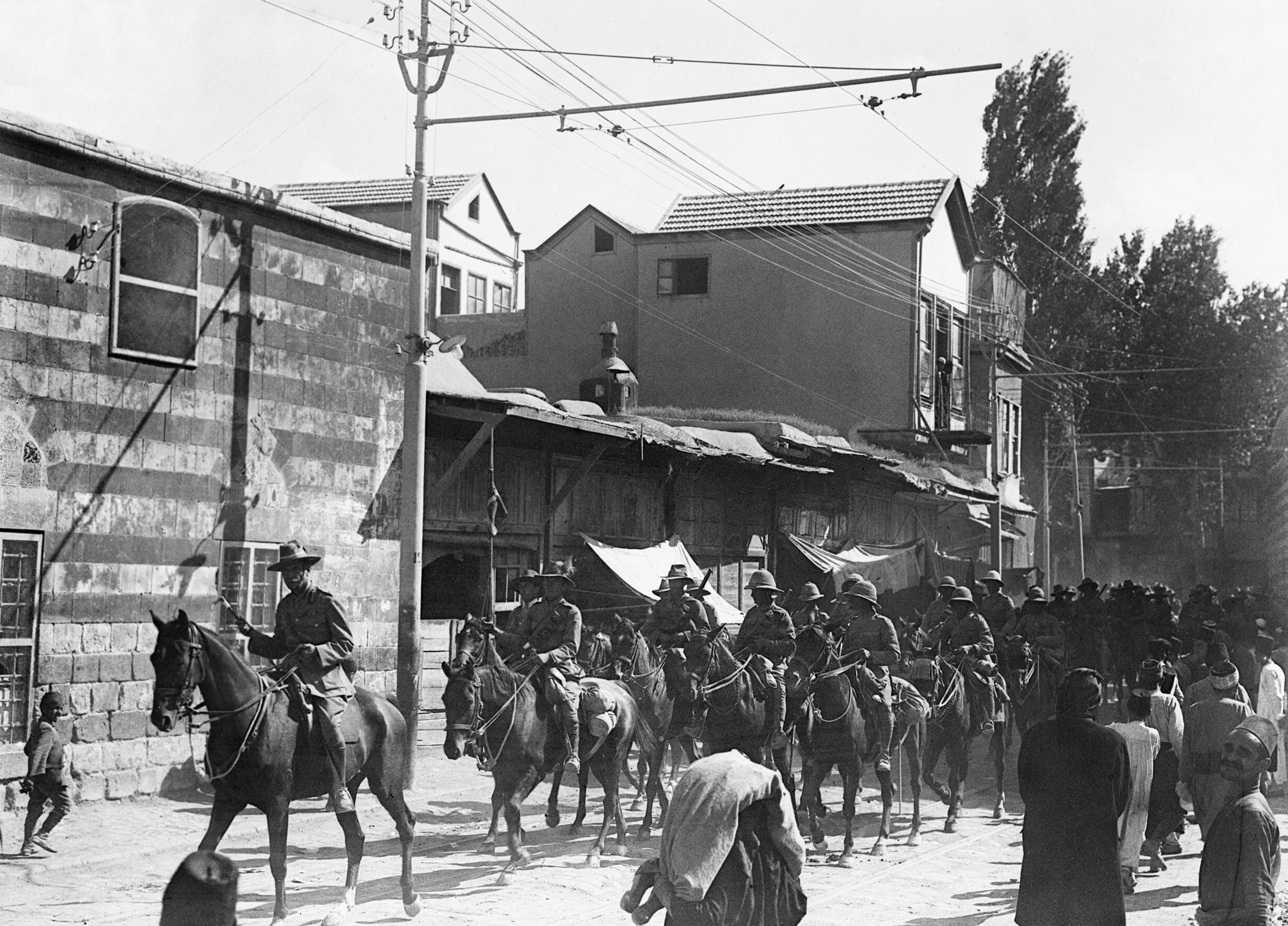 General Harry Chauvel leading the march through Damascus, 2 October 1918